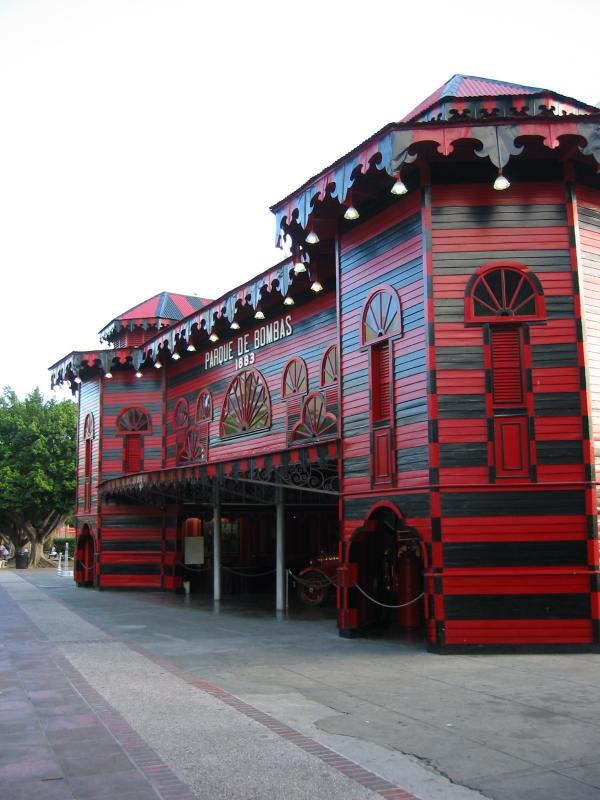 Parque de Bombas - Ponce, Puerto Rico Tagging GFDL: Likely taken by uploader, who has taken similar images (e.g. Image:Luis Munoz Rivera statue.jpg and Image:Old san juan.jpg and reluctant to tagging until adviced to. Fred-Chess 21:16, 26 September 2005 (UTC)